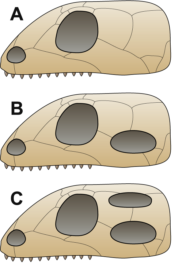 Comparison of skulls of Anapsida, Synapsida and Diapsida